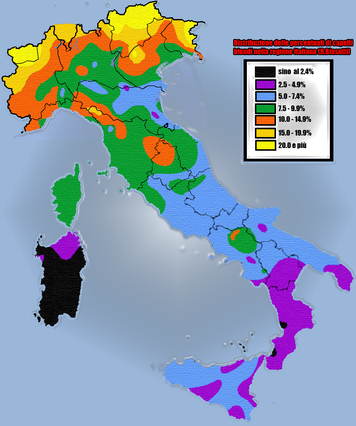 Percentage of blond hairs in the italian regions (from the study of Ridolfo Livi conducted between 1859 and 1863 on the records of the National Conscription Service). Italy is a melting pot of Mediterranean and German populations, as can be seen from this figure.